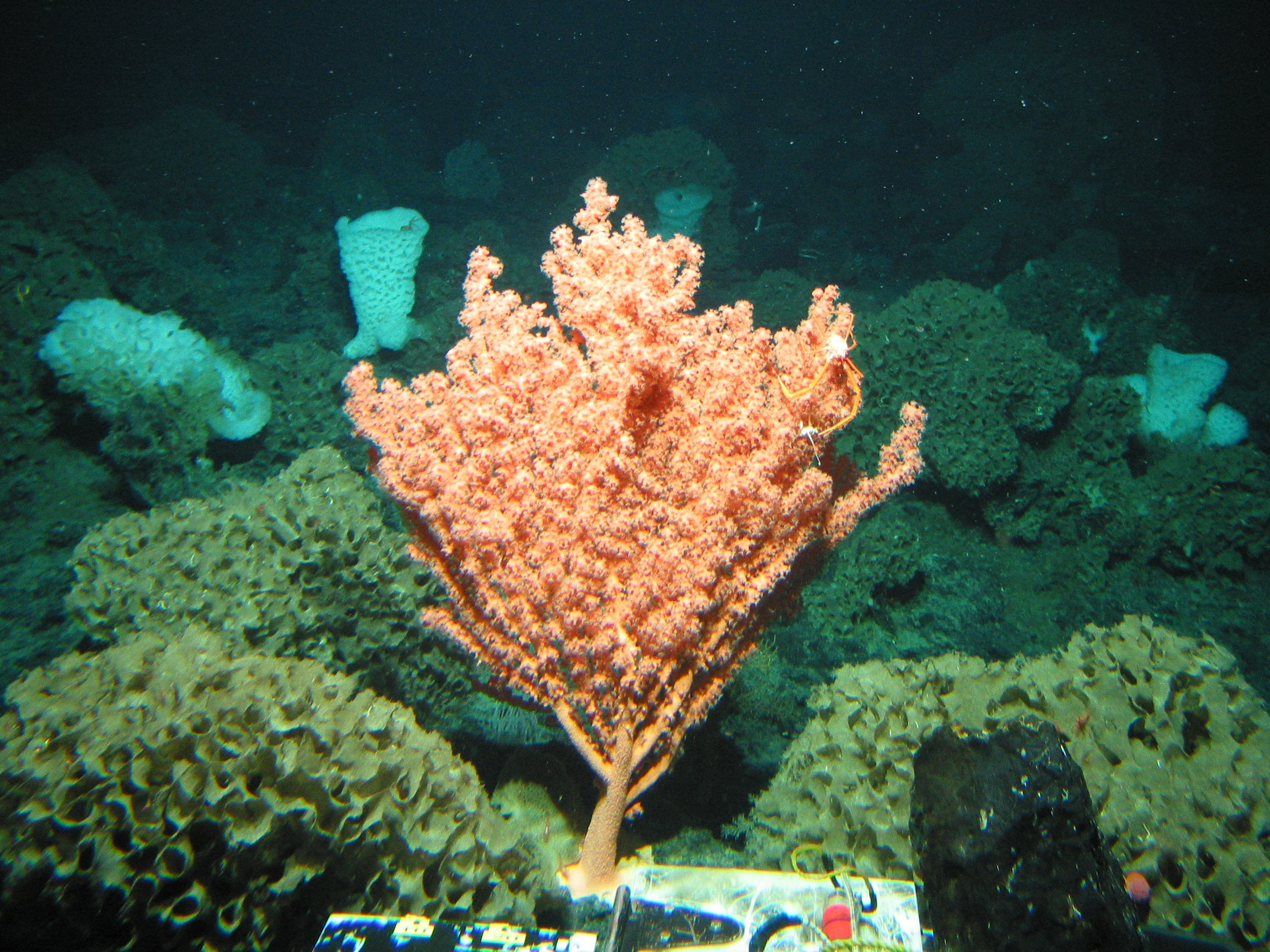 Gulf of Alaska Seamount Expedition. Large paragorgia coral with galatheid crabs in a sponge forest on Welker Seamount at about 700 meters depth. Pacific Ocean, Gulf of Alaska.